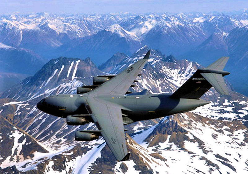 249th Airlift Squadron - Boeing C-17A Lot XI Globemaster III 99-0169 The "Spirit of Denali" flies over the Alaska Range June 11 en route to Elmendorf Air Force Base, Alaska. This C-17 Globemaster III is the first of eight to be stationed there The airlifters will be flown by active duty in the 517th Airlift Squadron and by Air National Guard in the 249th Airlift Squadron. (U.S. Air Force photo/Tech. Sgt. Keith Brown)